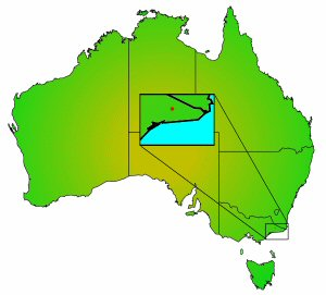 A map of Australia indicating the range of Galaxias mcdowalli